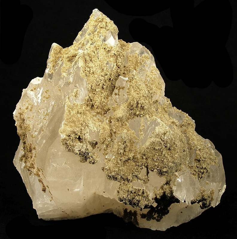 Guimarãesite, Quartz Locality: Guimarãesite occurrence, Piauí valley, Taquaral, Itinga, Jequitinhonha valley, Minas Gerais, Southeast Region, Brazil (Locality at ) Size: 12.7 x 12.5 x 6.6 cm. Guimaraesite is a newly described complex calcium/zinc/magnesium/iron beryllium phosphate, which comes from an unnamed pegmatite working in this valley. This specimen is a complete floater quartz cluster the size of a large grapefruit, with exception only of one small bit on one side which is contacted. It is smothered on one side by Guimaraesite in sub-mm spherical crystal clusters. This is the first rich specimen I have seen. Described in 2006.